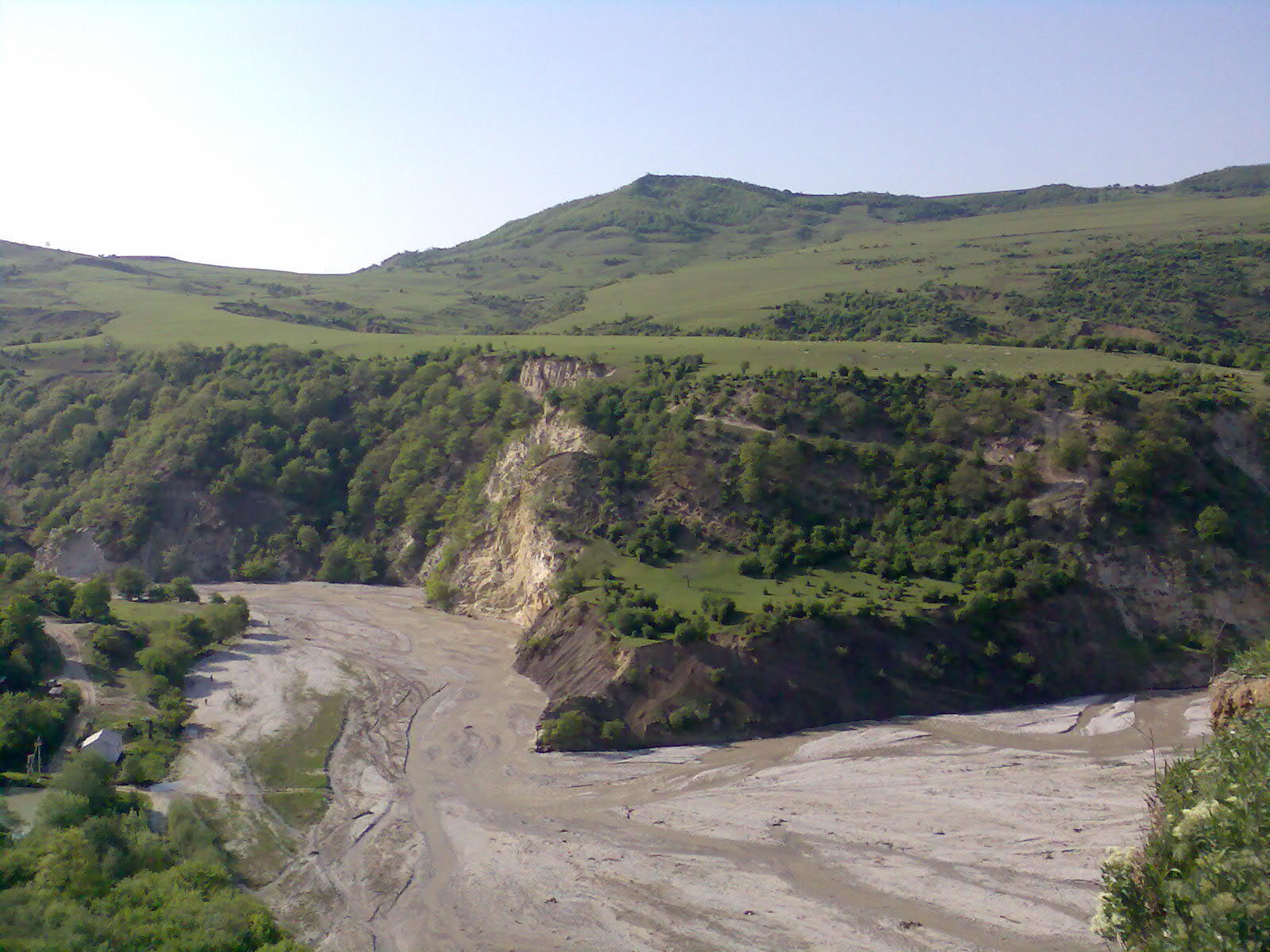 Aktash river near Yurt-Aukh village.